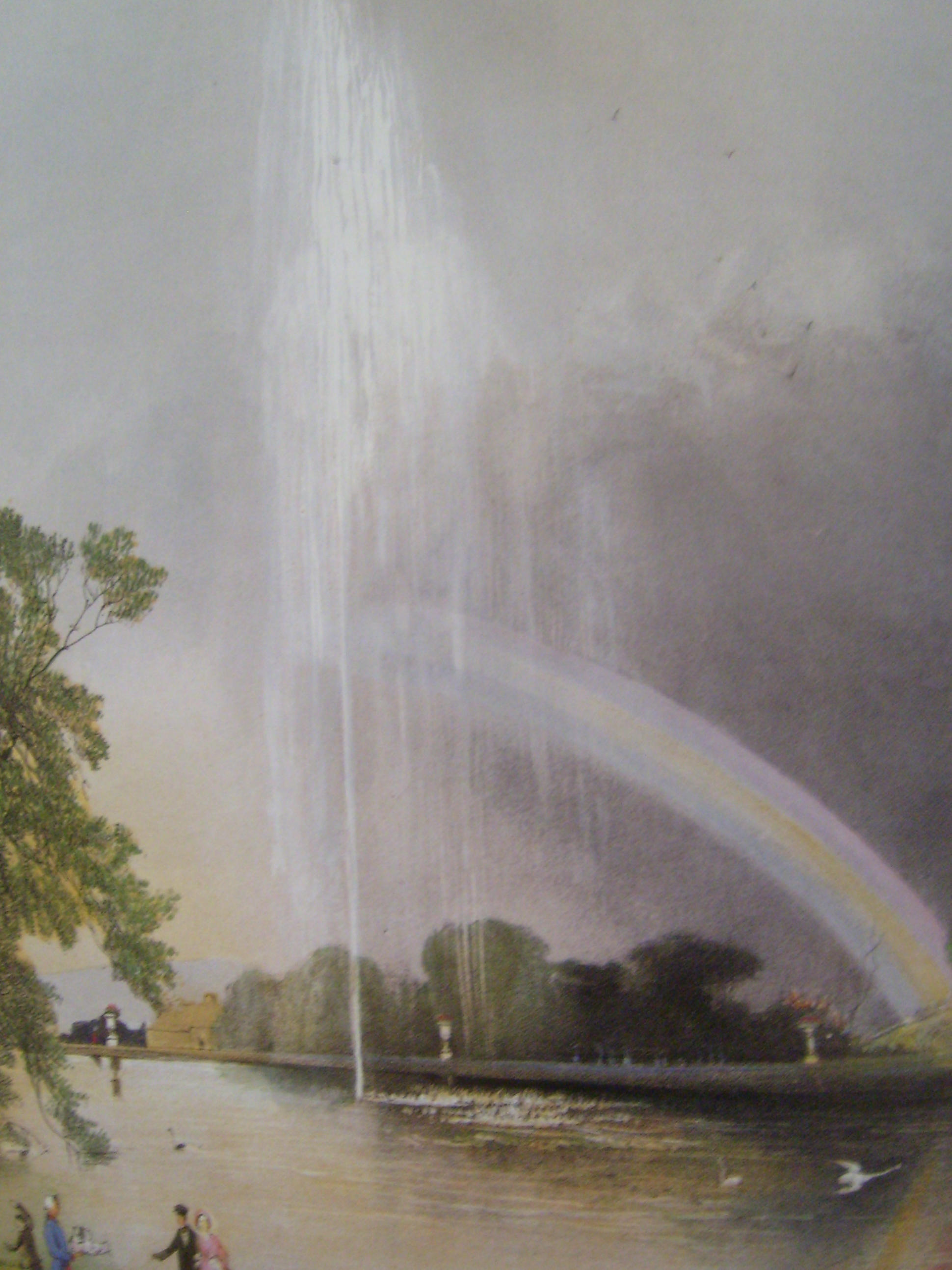 Chronolithograph of the Great Fountain, Enville, Staffordshire made by E. Adveno Brooke for "The Gardens of England," London, 1857.